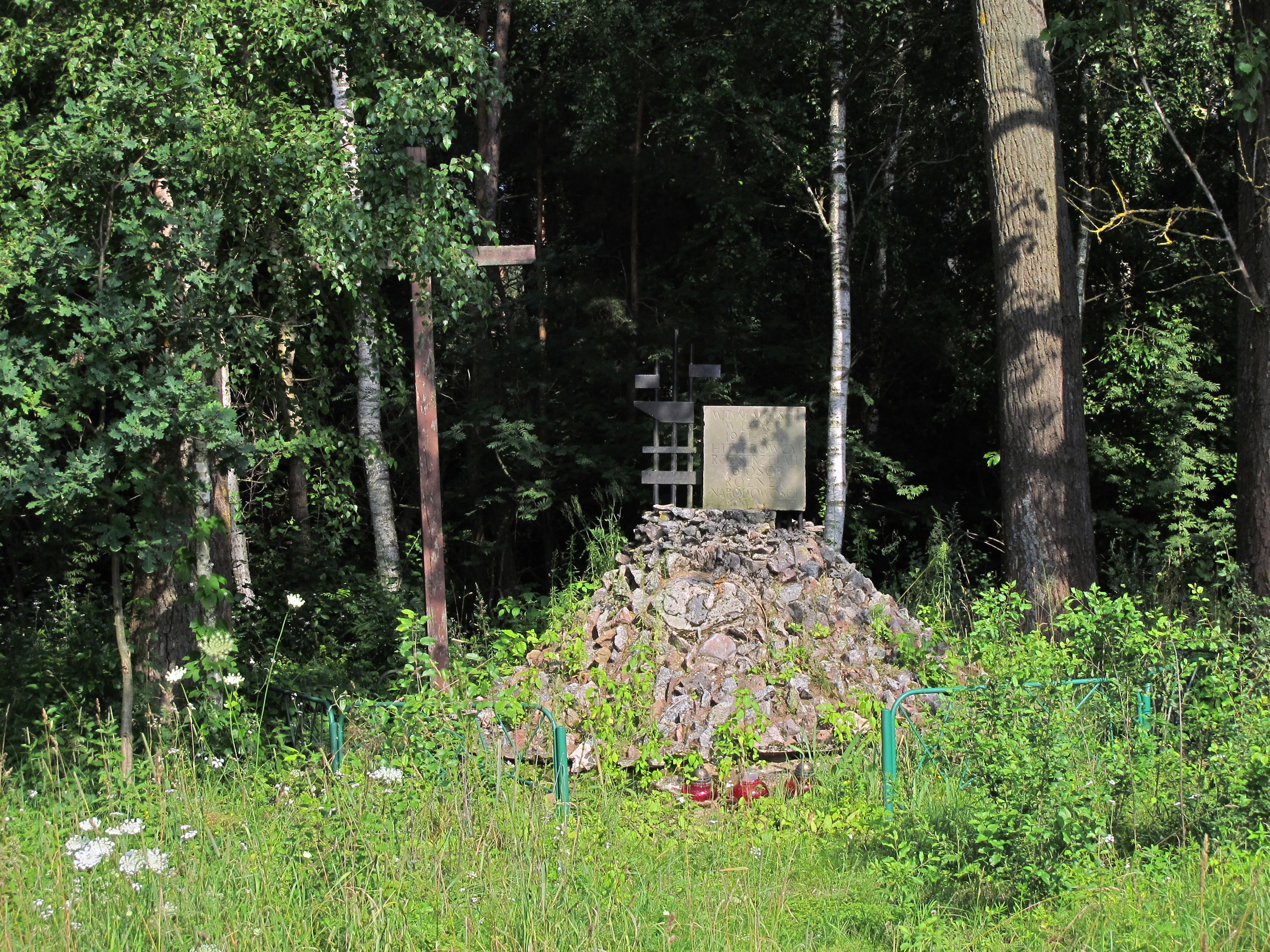 Tablet at top of the mound in memory of 76 victims murdered by the Nazis, near Juraszki village, by the road between Juraszki-Lubejki villages, gmina Turośń Kościelna, podlaskie, Poland „W TYM MIEJSCU W LATACH 1941 – 1944 HITLEROWCY ROZSTRZELALI 76 OSÓB RÓŻNEJ NARODOWOŚCI — CZEŚĆ ICH PAMIĘCI”